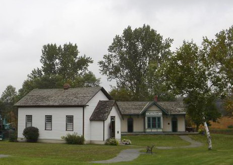 King Station (green and cream yellow building) and King Christian Church (white building) on the grounds of King Township Museum.